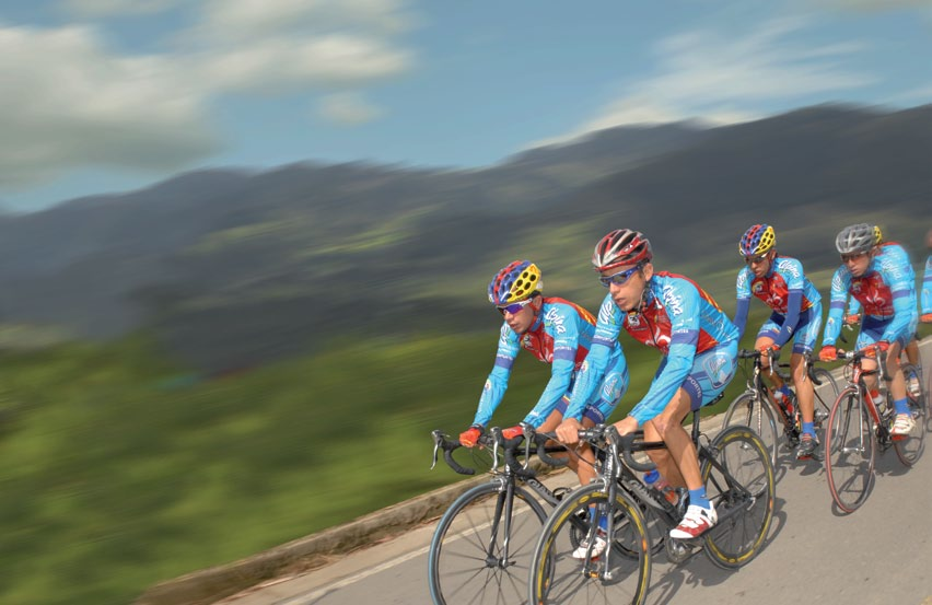 road bicycle racing